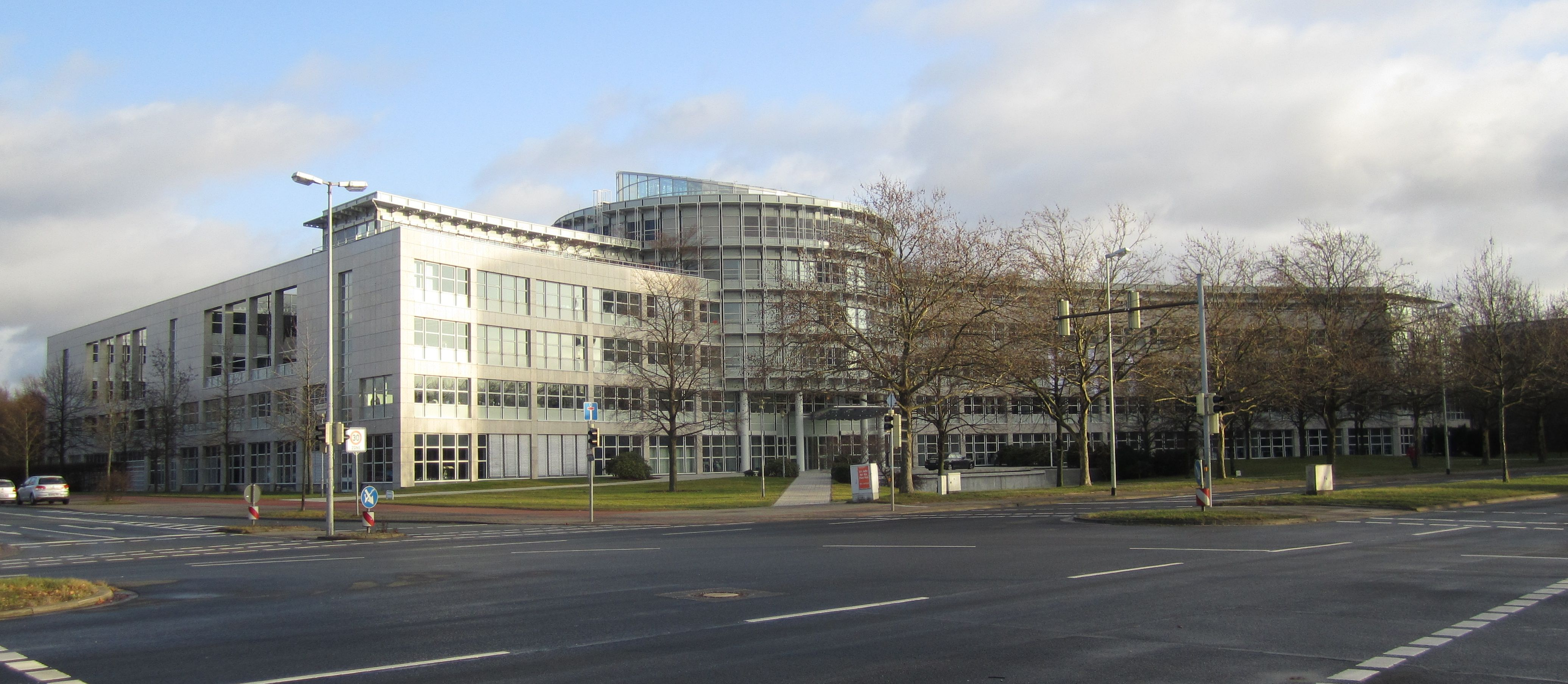 Office building of Heise Verlag, Hanover, Germany.